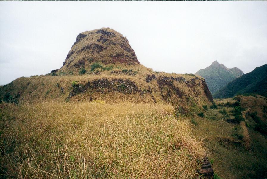 Pa (kind of polynesian fortification) on a ridge, Rapa, Austral Islands, French Polynesia